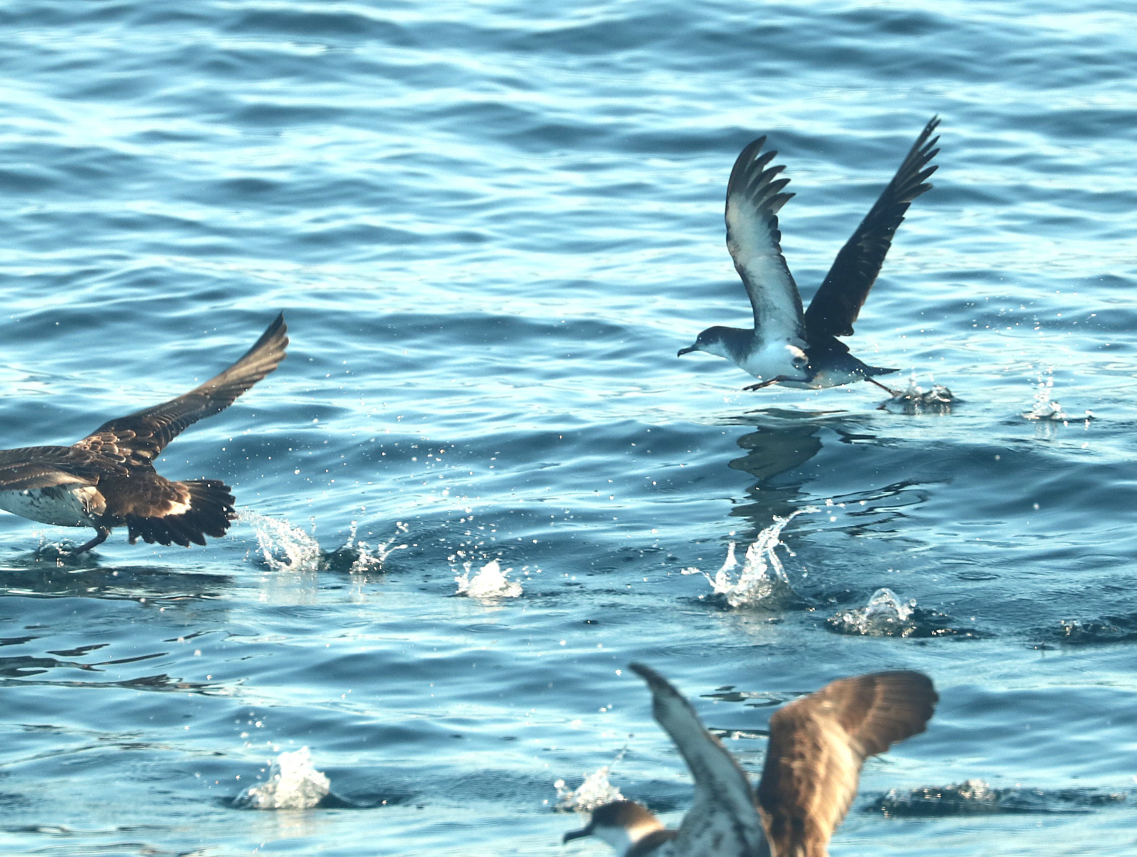 136 - MANX SHEARWATER (9-15-2918) MAS pelagic trip, out of bar harbor, me -15